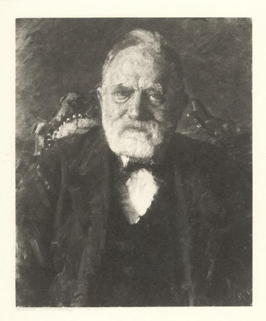 Danish physicist Christian Christiansen, doctoral supervisor of Niels Bohr